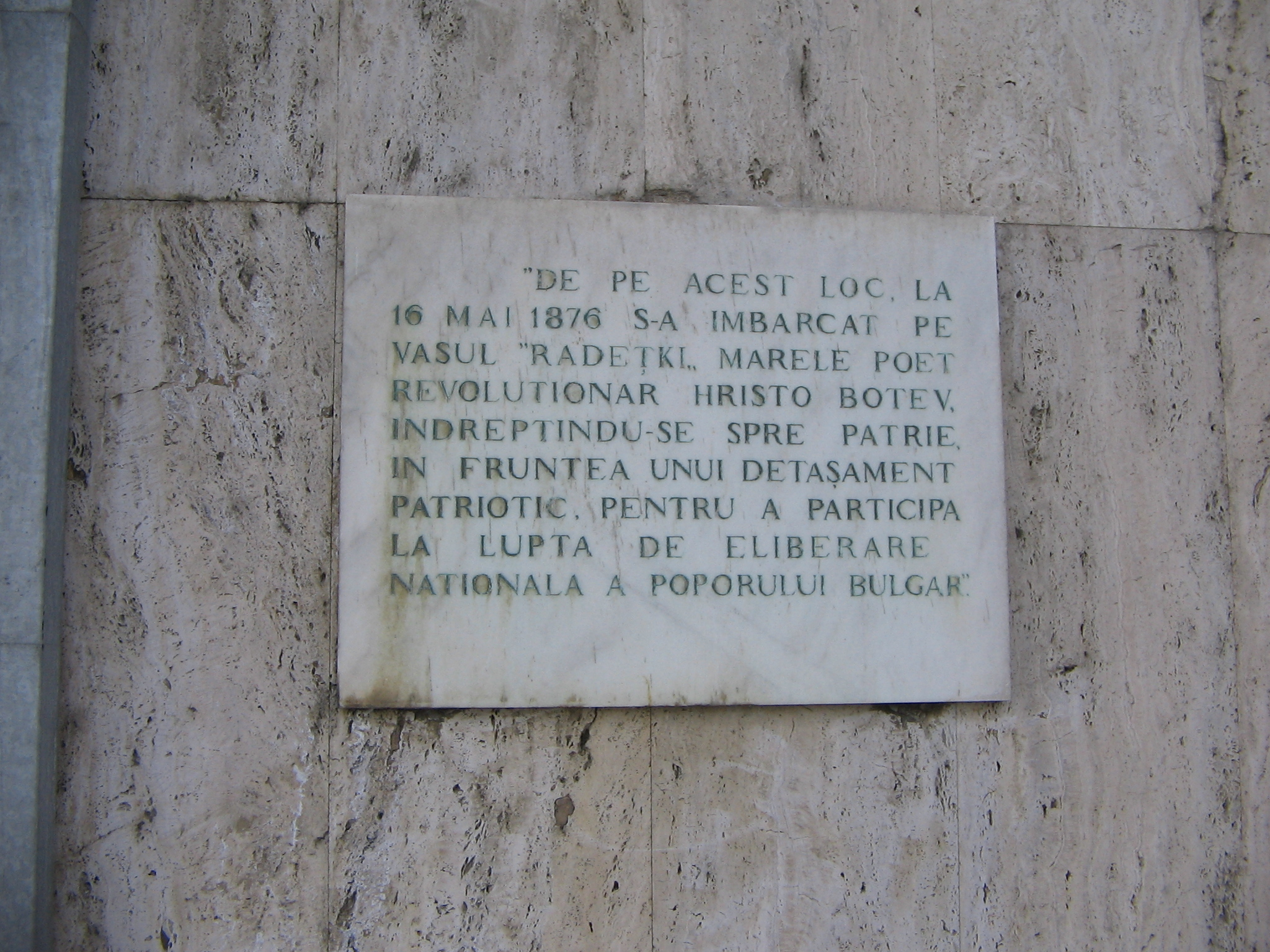 Giurgiu, Romania. Memorial plaque on the building of the Giurgiu Port. From this place Hristo Botev takes the Radetsky ship on 16 May 1876